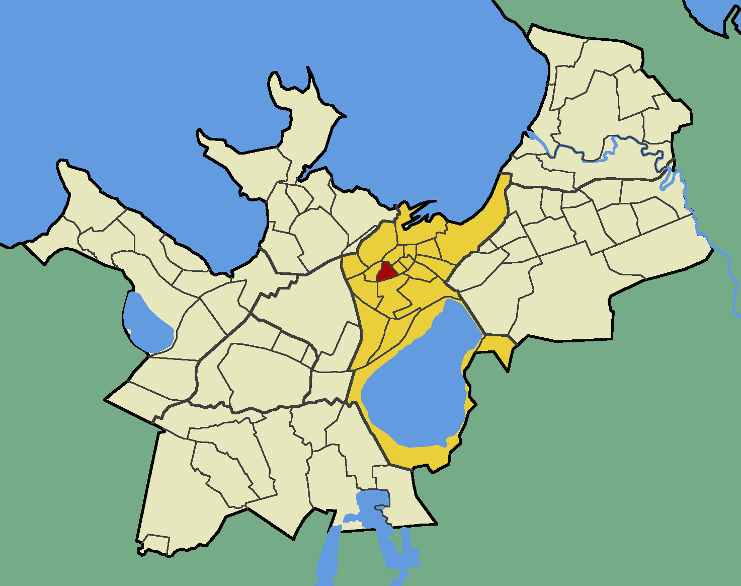 Map of Tallinn (Estonia) with borders of the quarters, Kesklinn district and Tatari quarter emphasised